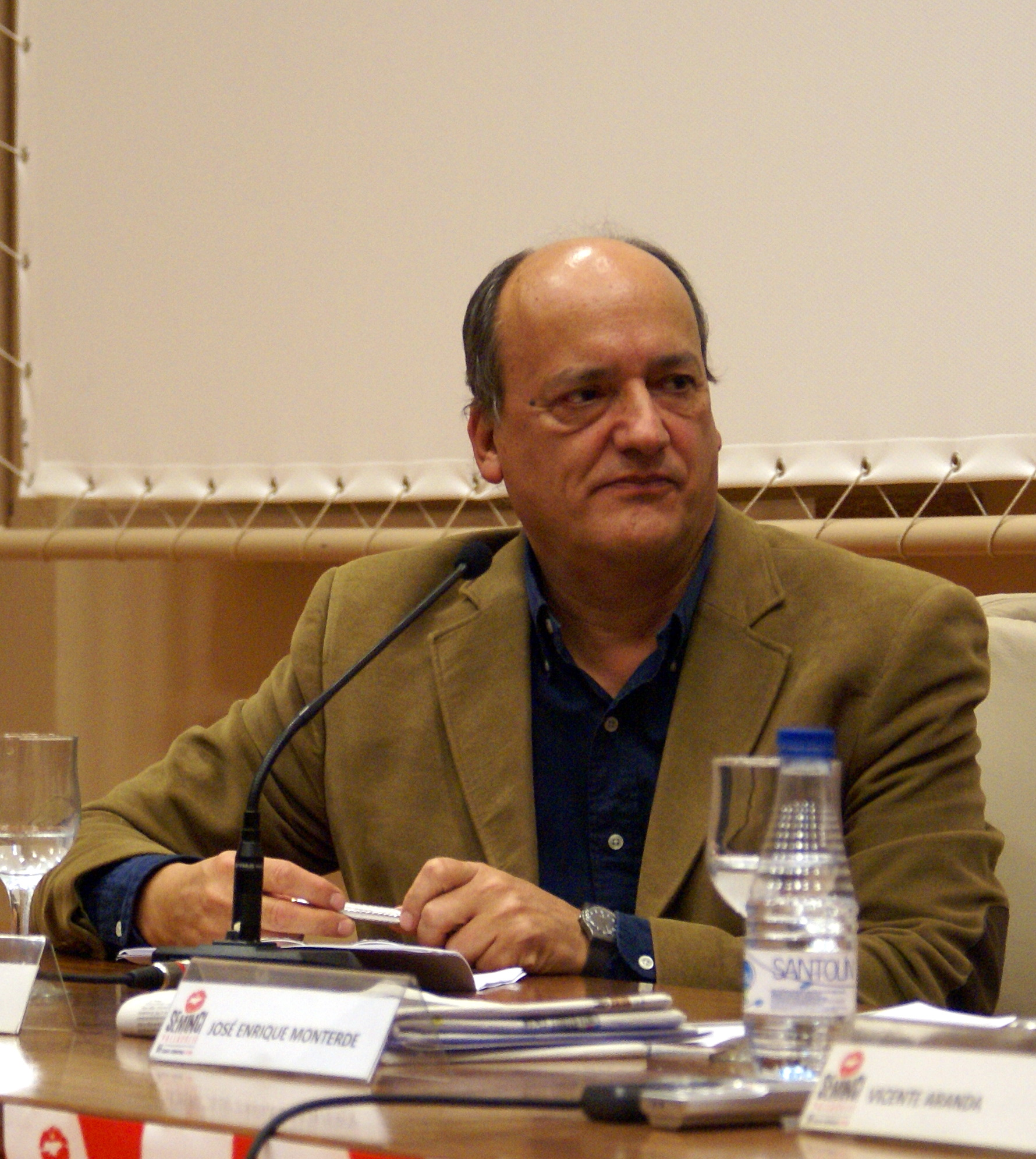 Gustavo Martín Garzo, Spanish writer.